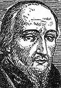 Saint Ambrose Edward Barlow